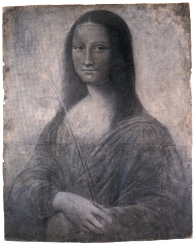 "Design for the Mona Lisa made about 1499 and attributed to Leonardo da Vinci", "Dimensions of canvas 25.50 by 20.50 inches", "In the collection of Giuseppe Vallardi, Florence"A charcoal and graphite study of the Mona Lisa attributed to Leonardo is in the Hyde Collection, in Glens Falls, NY. Attributed to Leonardo da Vinci , Italian (1452-1519), Study of the Mona Lisa, c. 1503, charcoal and graphite, 24 1/8 x 20 1/8 in., The Hyde Collection, 1971.71 Probably a copy of the painting and not what they thought it was. Talk:Lisa_del_Giocondo#Mona_Lisa_drawing